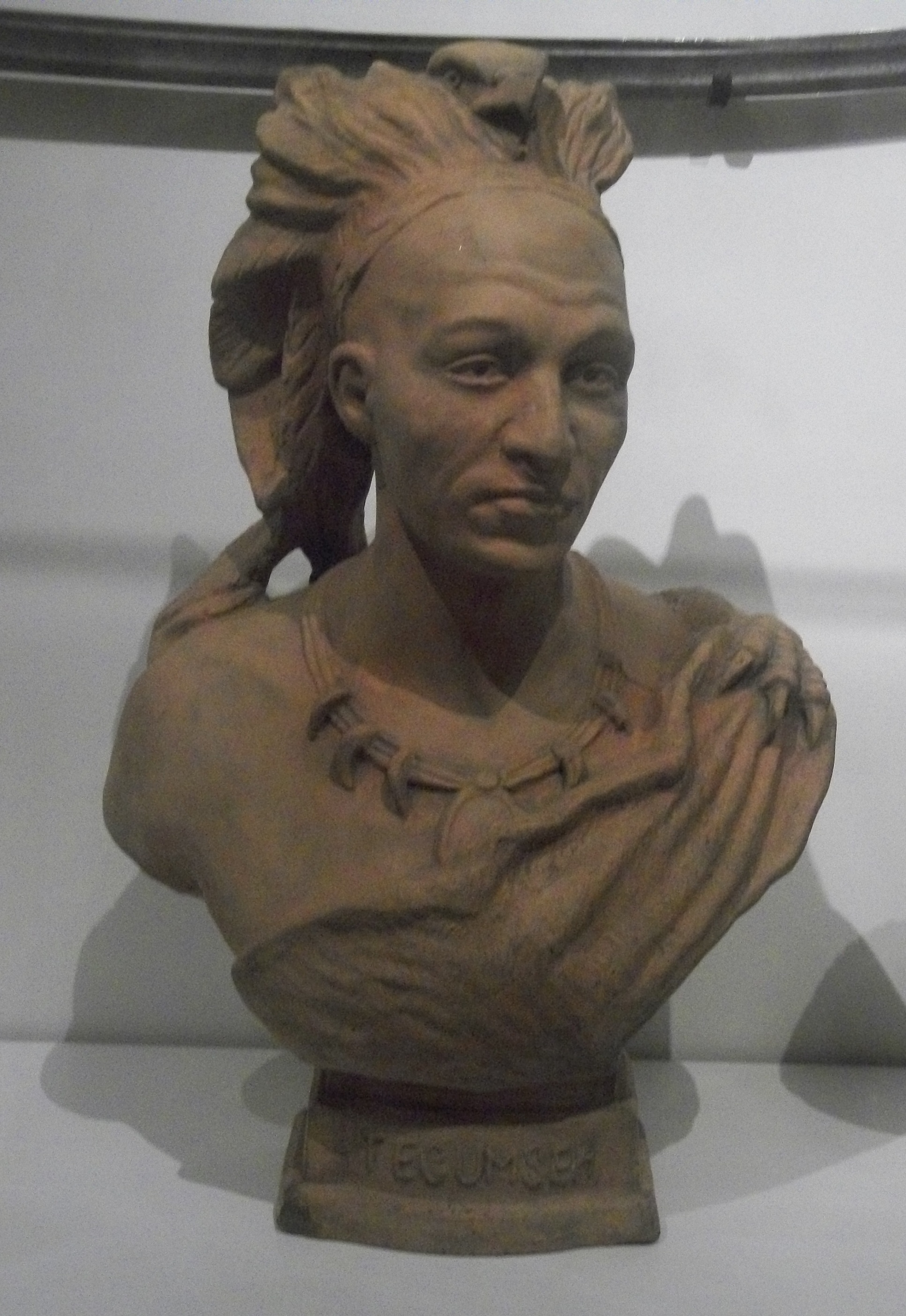 Bust of the Shawni chief Tecumseh by Hamilton MacCarthy (1846–1939) created at 1896, on display at the Royal Ontario Museum